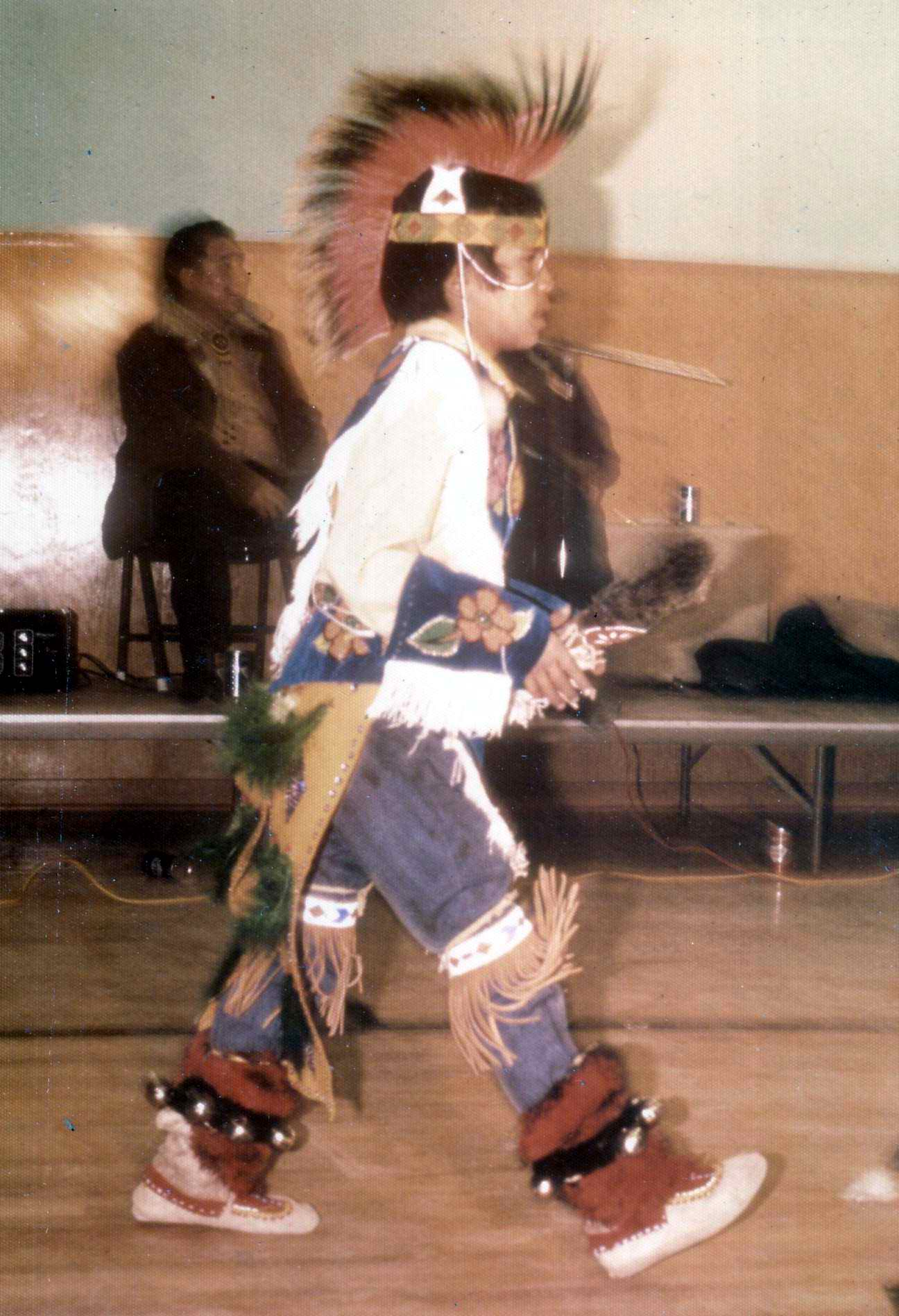 I took this photo myself in 1973. John Hill 03:34, 18 August 2007 (UTC)